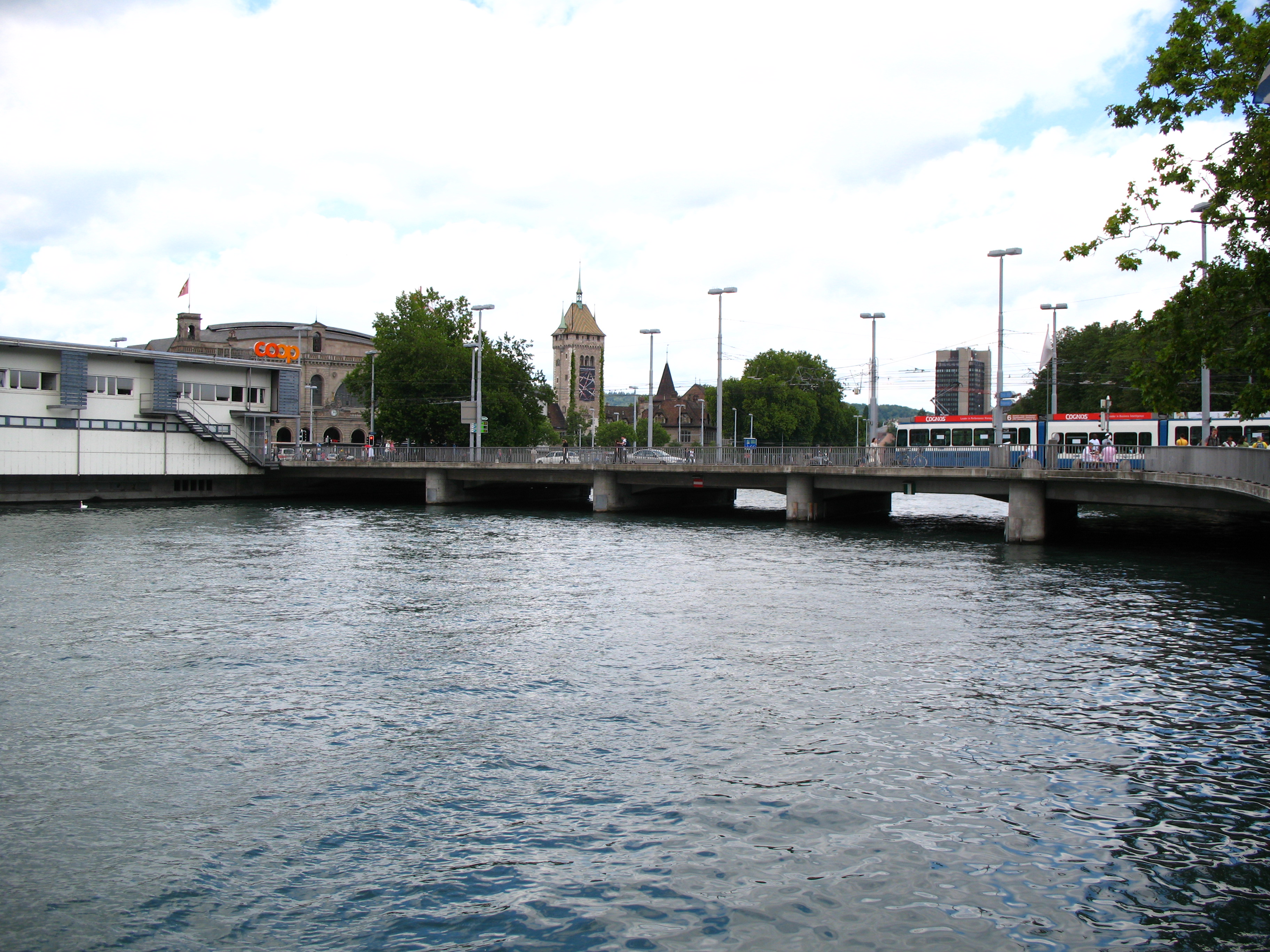 Train Station Bridge, Zürich, Switzerland